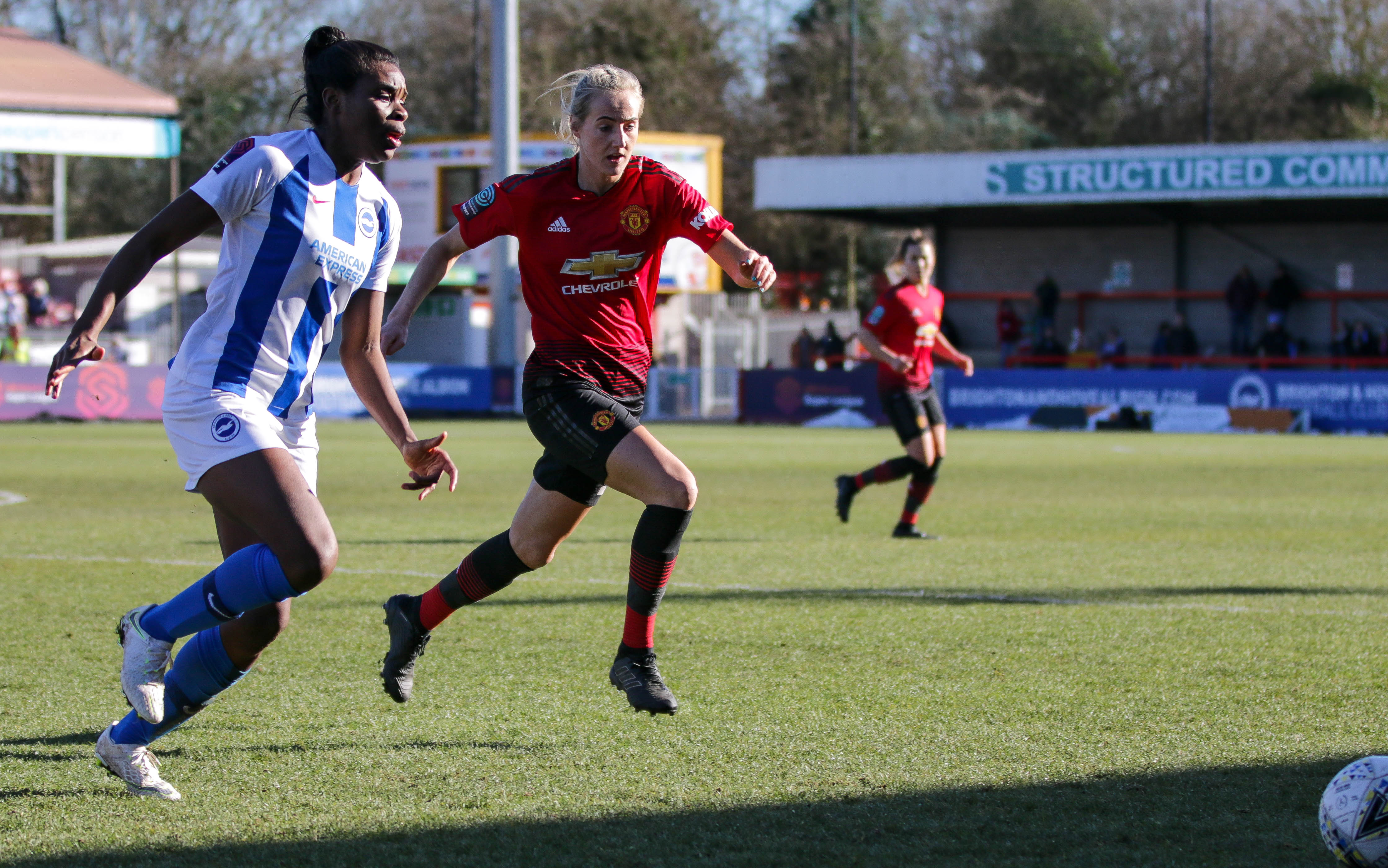 Ini Umotong and Millie Turner